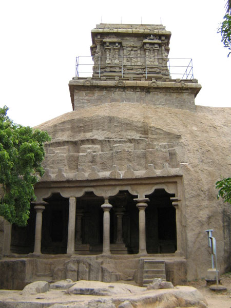 Front view of the Mahishasuramarthini cave temple at Mamallapuram, Tamilnadu India.